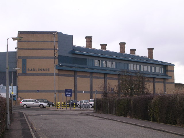 Barlinnie Prison: home to Abdel Baset al-Megrahi, convicted for the 1988 Lockerbie bombing